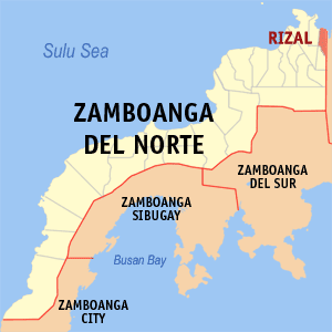 Map of the Zamboanga del Norte showing the location of Rizal